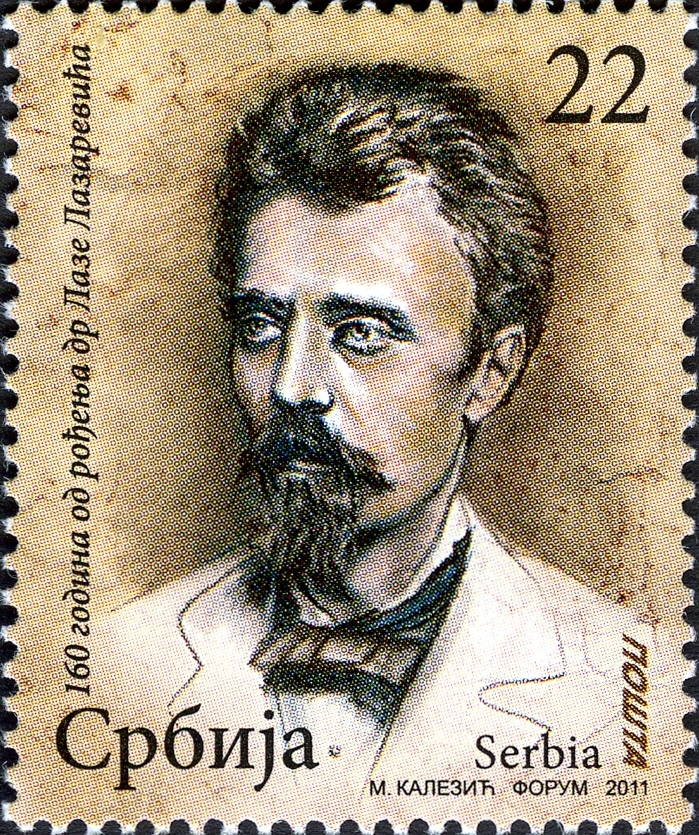 160th Anniversary of the Birth of Dr Laza Lazarevic